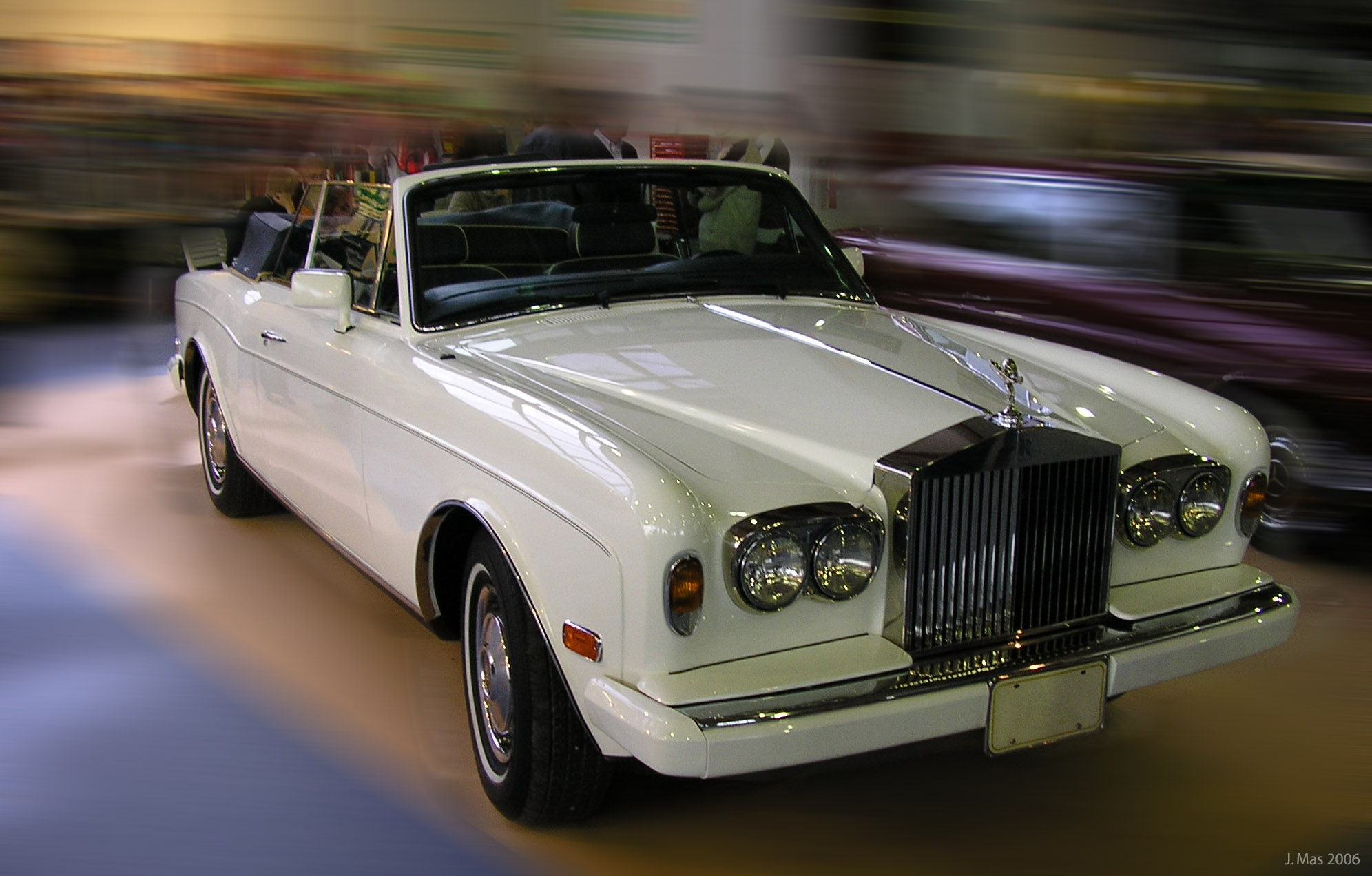 Rolls-Royce Corniche III in Retromovil Madrid 2006